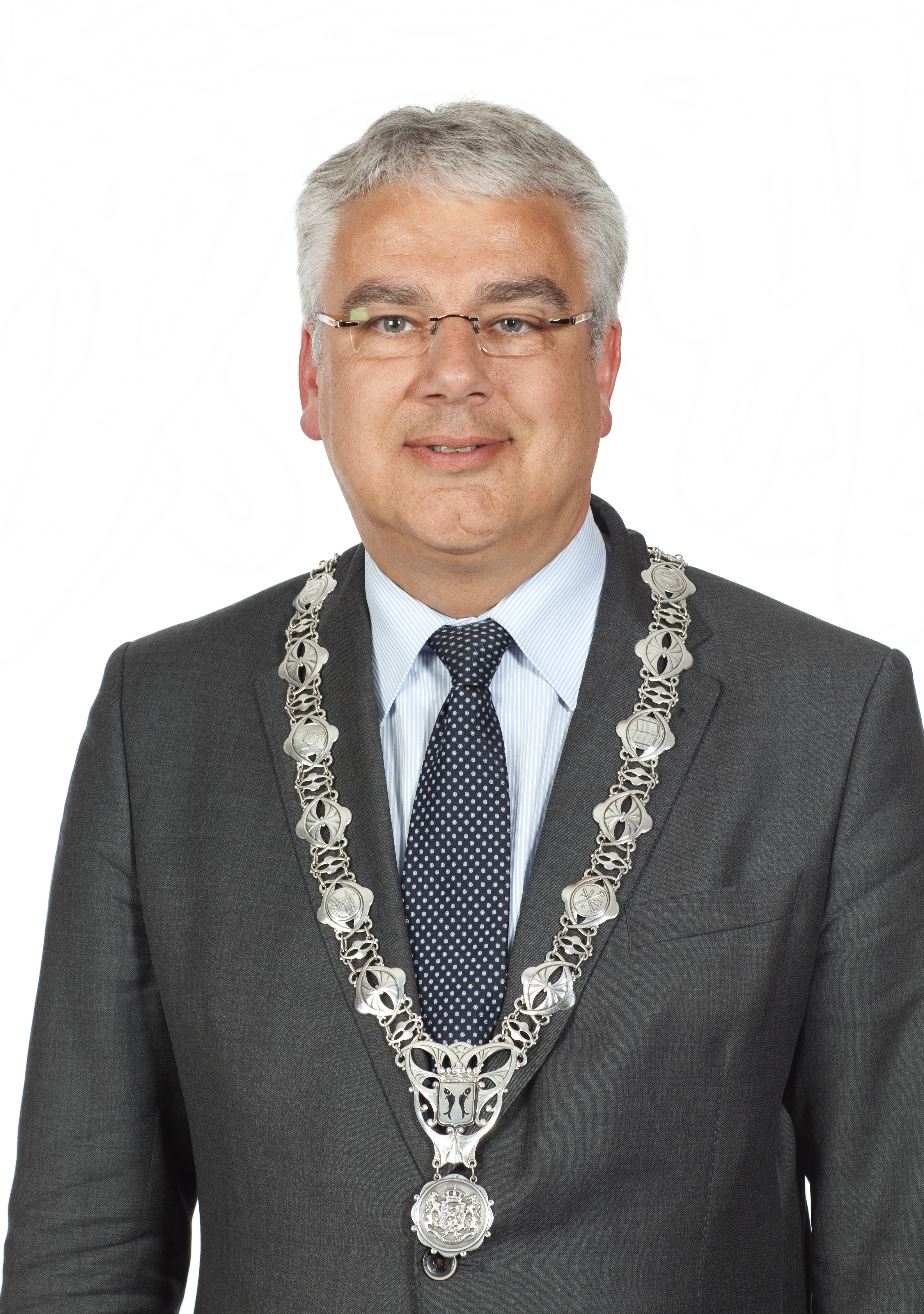 Frank Koen mayor Capelle aan den IJssel